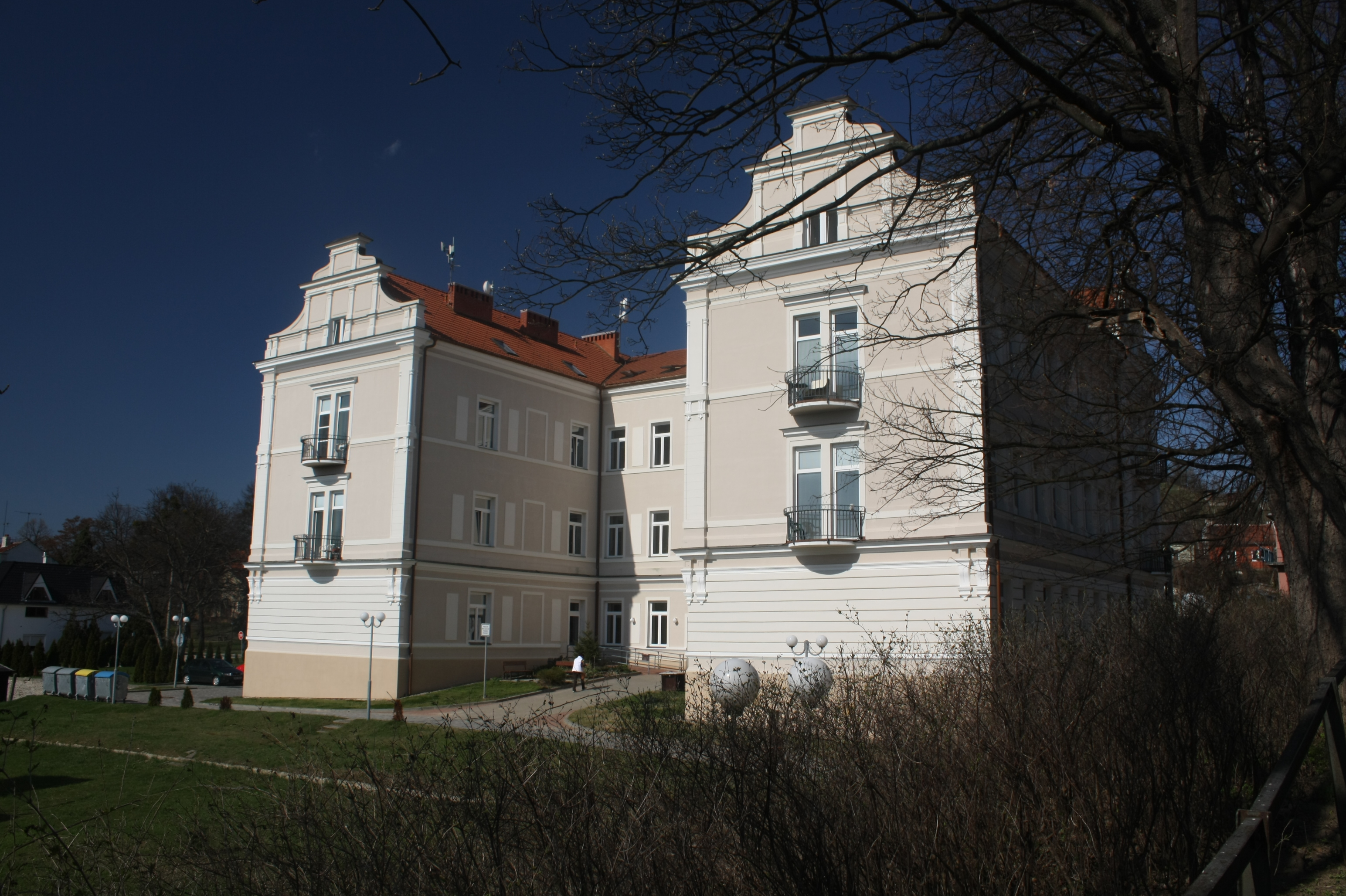 Bzenec (Hodonín district, Czech Republic) - school building in the Upper square